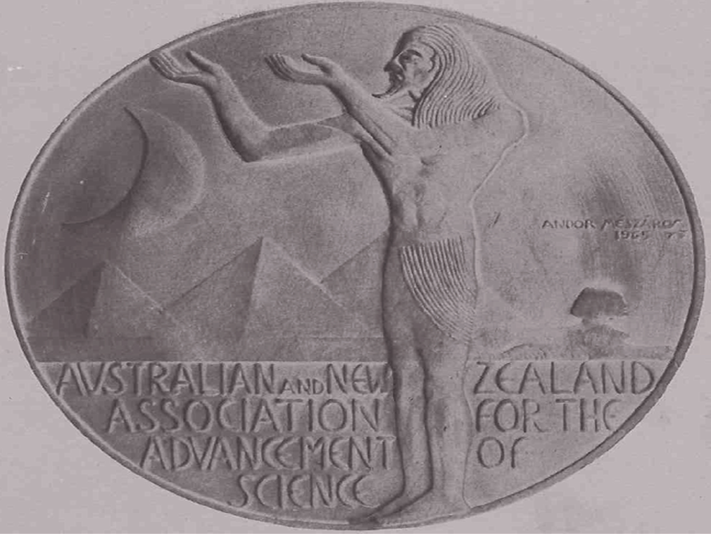 ANZAAS medal (front)